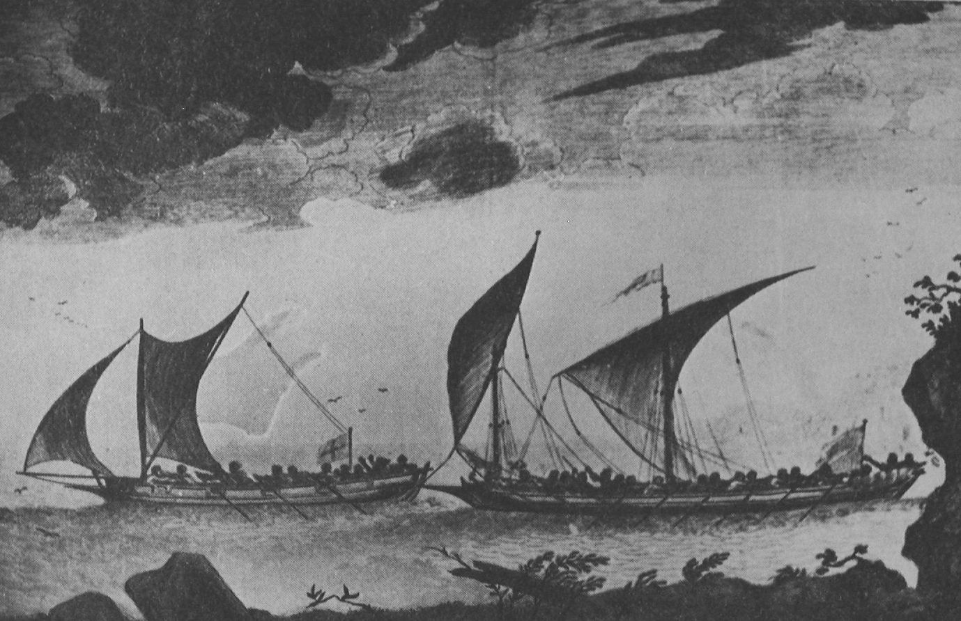 Artistic depiction of two kinds of ships: a felucca (left) and a bergantina (right)